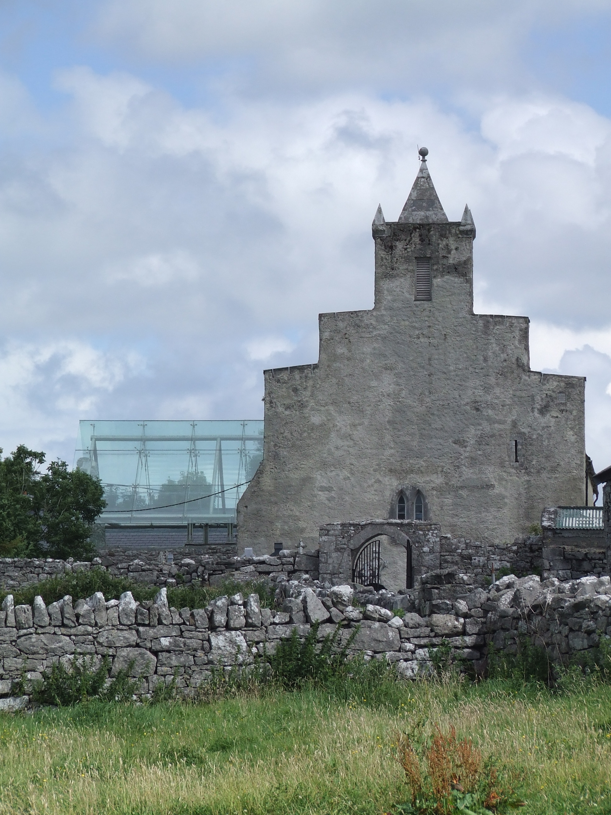 Cathedral church of the Diocese of Kilfenora. Northern transept, on left, shows glass roof installed in 2005 to conserve celtic crosses.